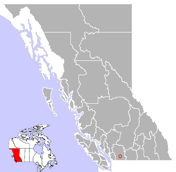 Harrison Hot Springs, British Columbia location.